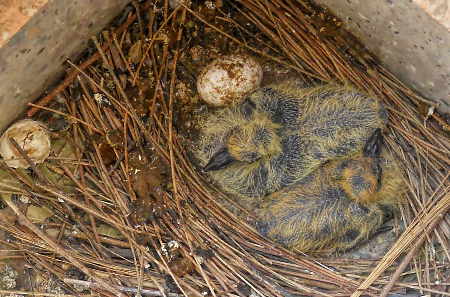 Two newly hatched Squabs